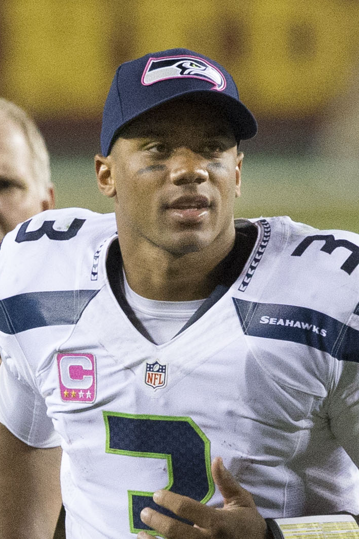 Russell Wilson at the Seahawks vs Redskins game on October 6, 2014